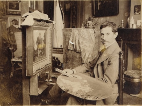 Johannes Akeringa